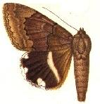 PLATE CCXXVIII.